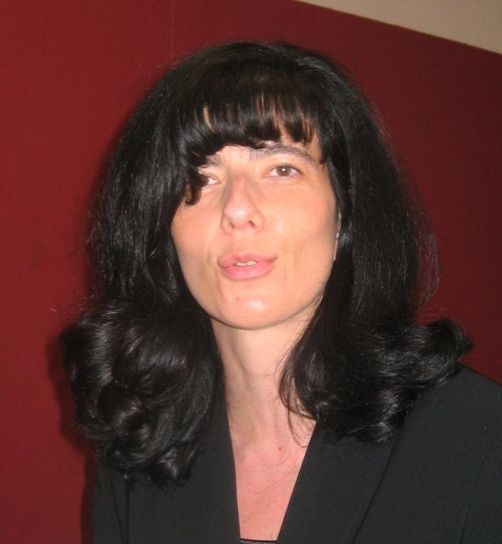 Urša Lah, slovenian choir conductor and singer photo:Ziga 13:31, 21 June 2006 (UTC)